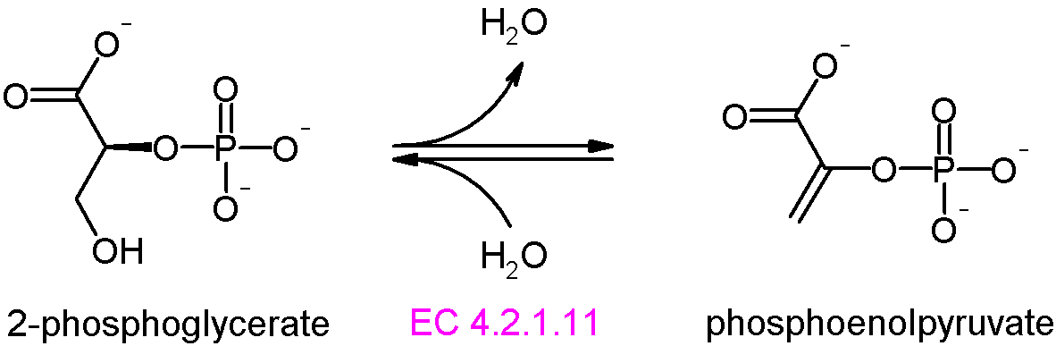 Glycolysis, 2PG-PEP